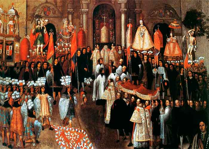 Mercedarian Friars in the Corpus Christ procession at the Main Square of Cusco.